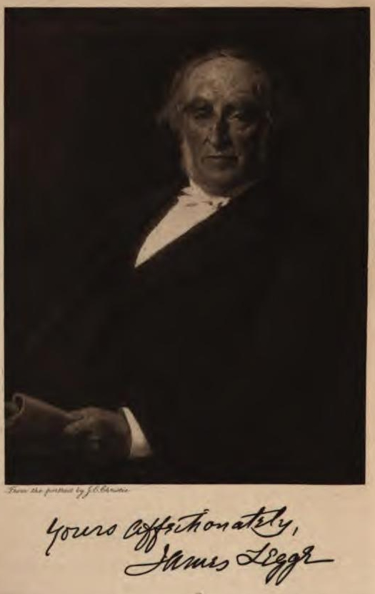 James Legge, portrait and signature